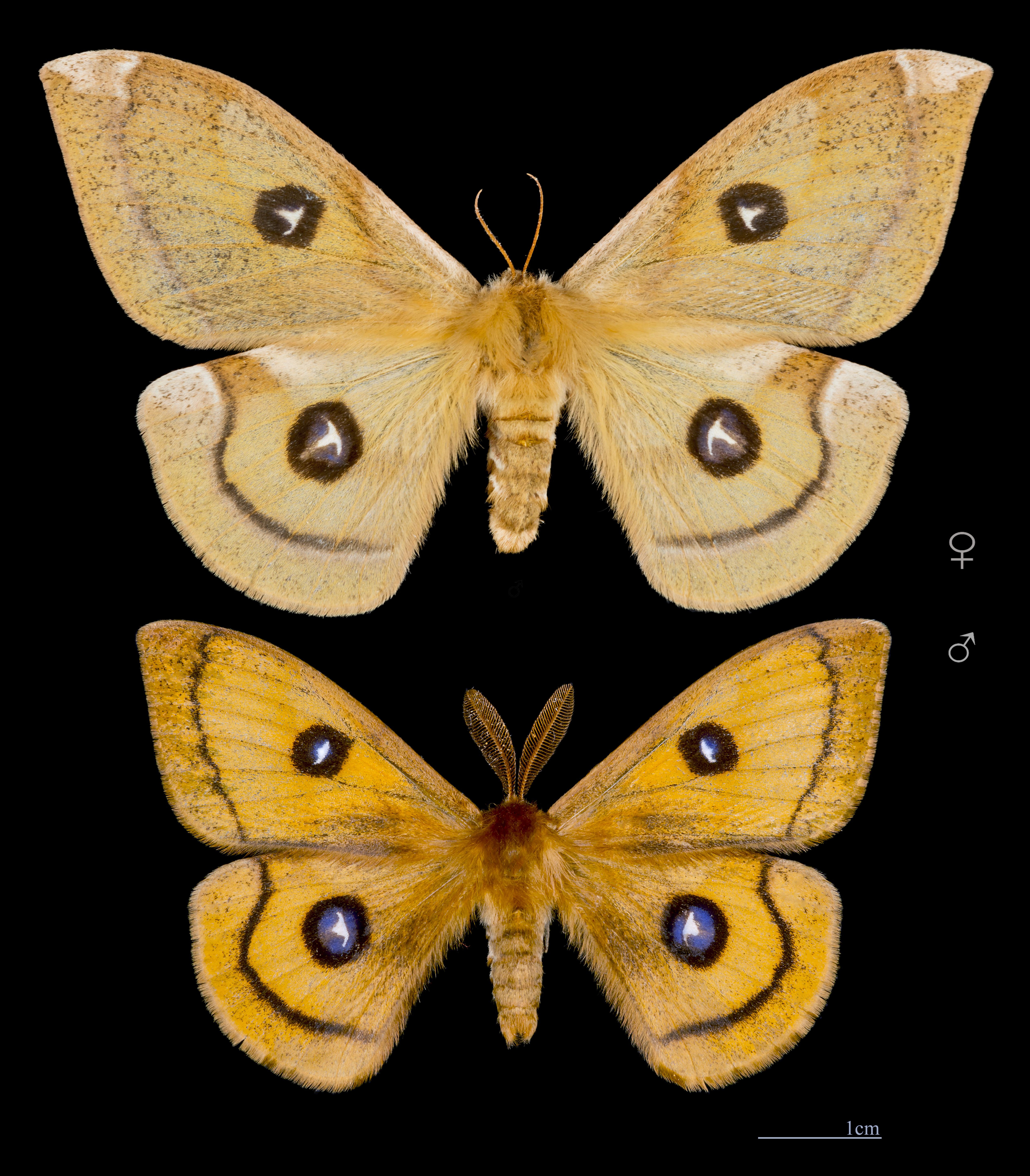 Tau Emperor, Dorsal side of both sexes.